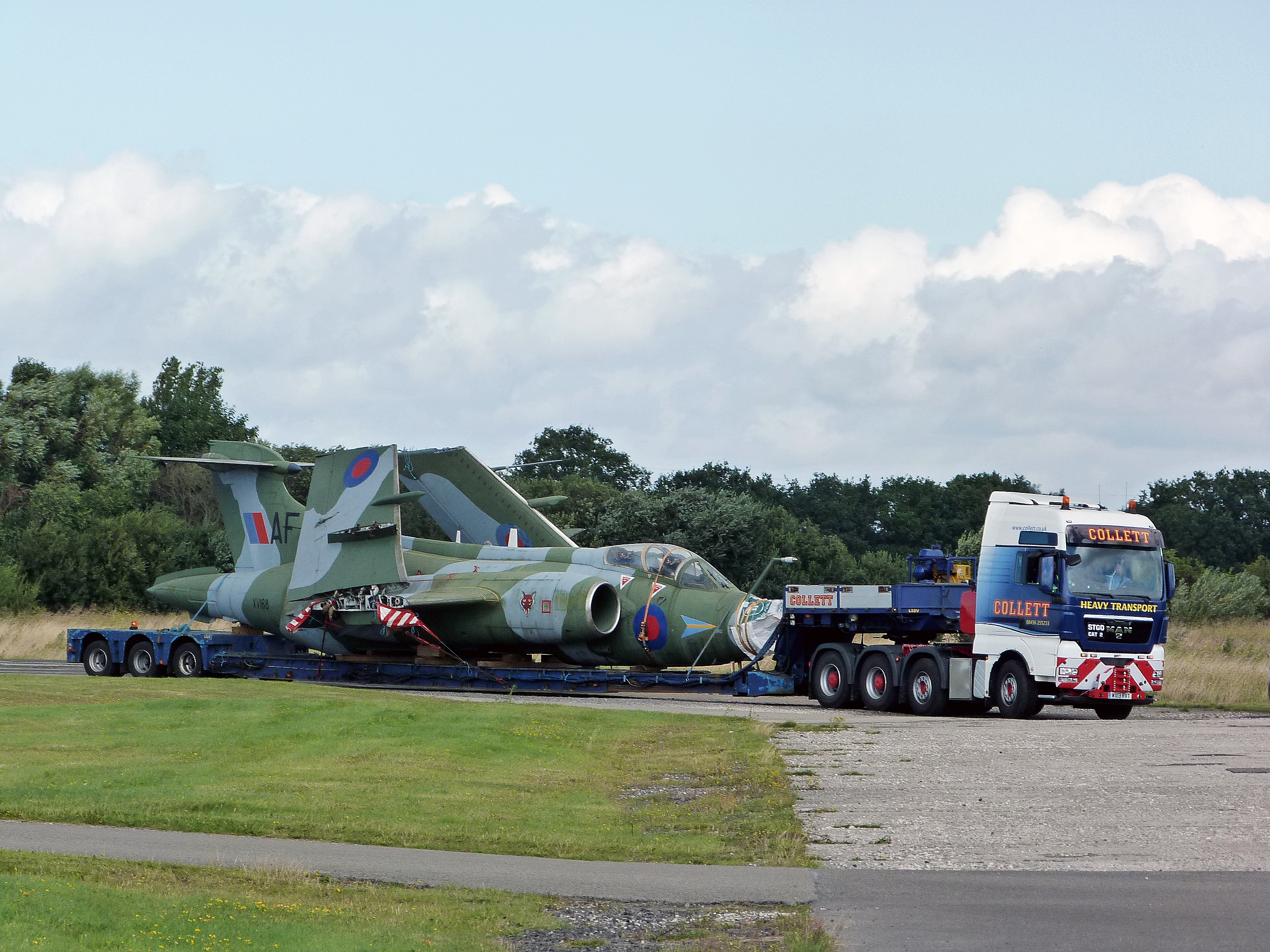 Blackburn Buccaneer XV168 Arrives at Yorkshire Air Museum